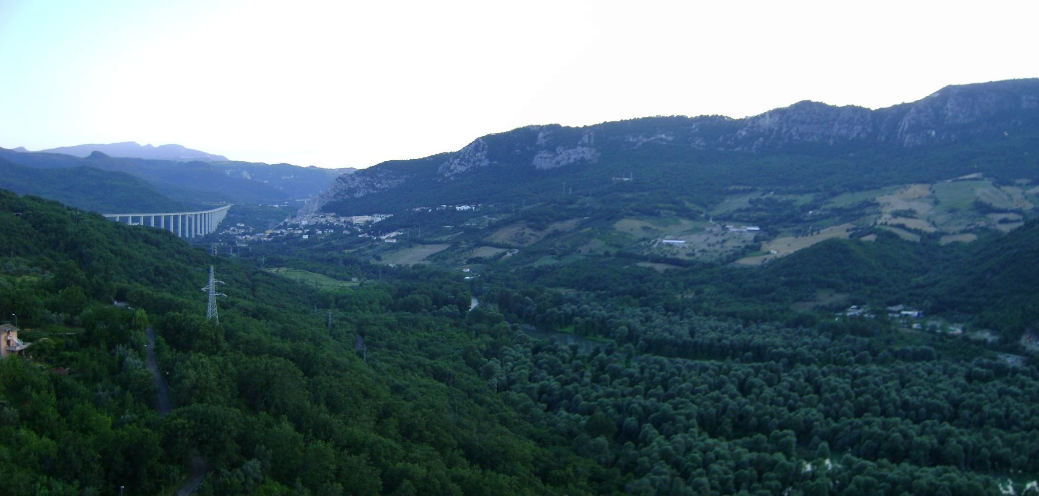 The Sangro Valley between Villa Saint Maria and Pietraferrazzana, province of Chieti, Italy